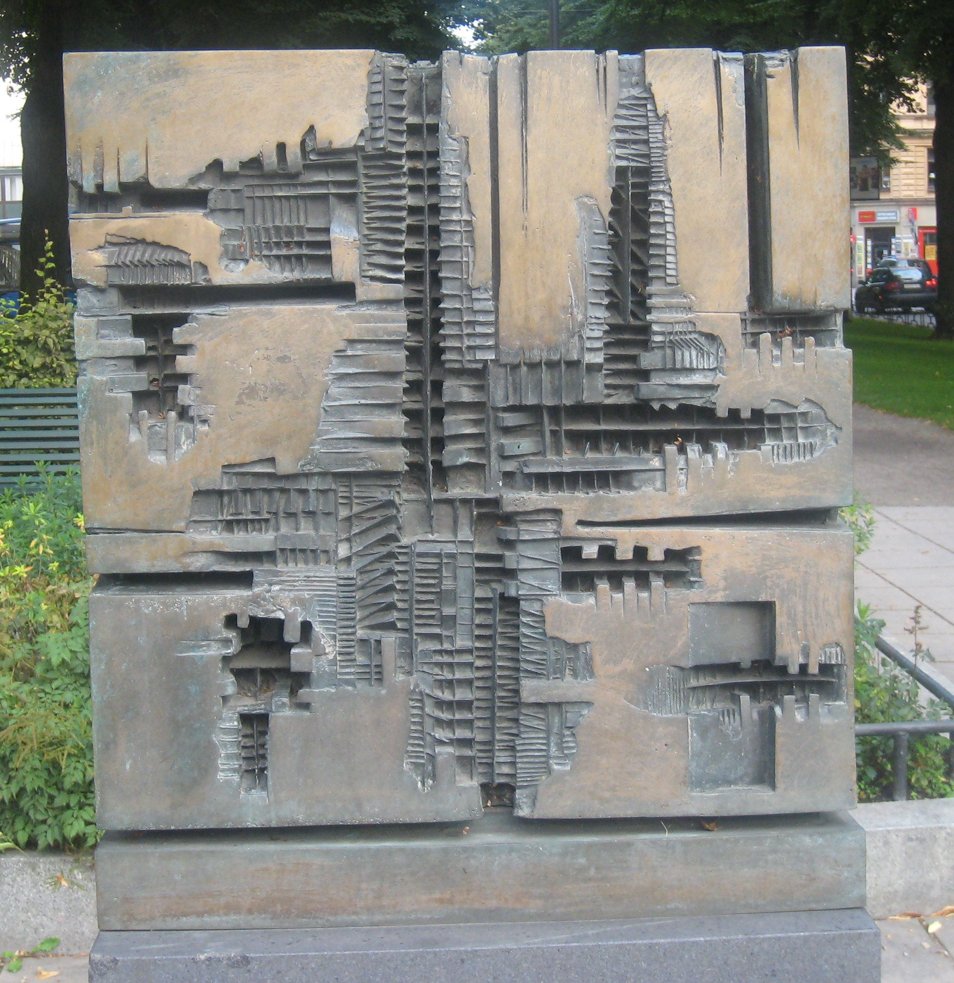 Scatola by Arnaldo Pomodoro. Karlavägen. Stockholm, Sweden